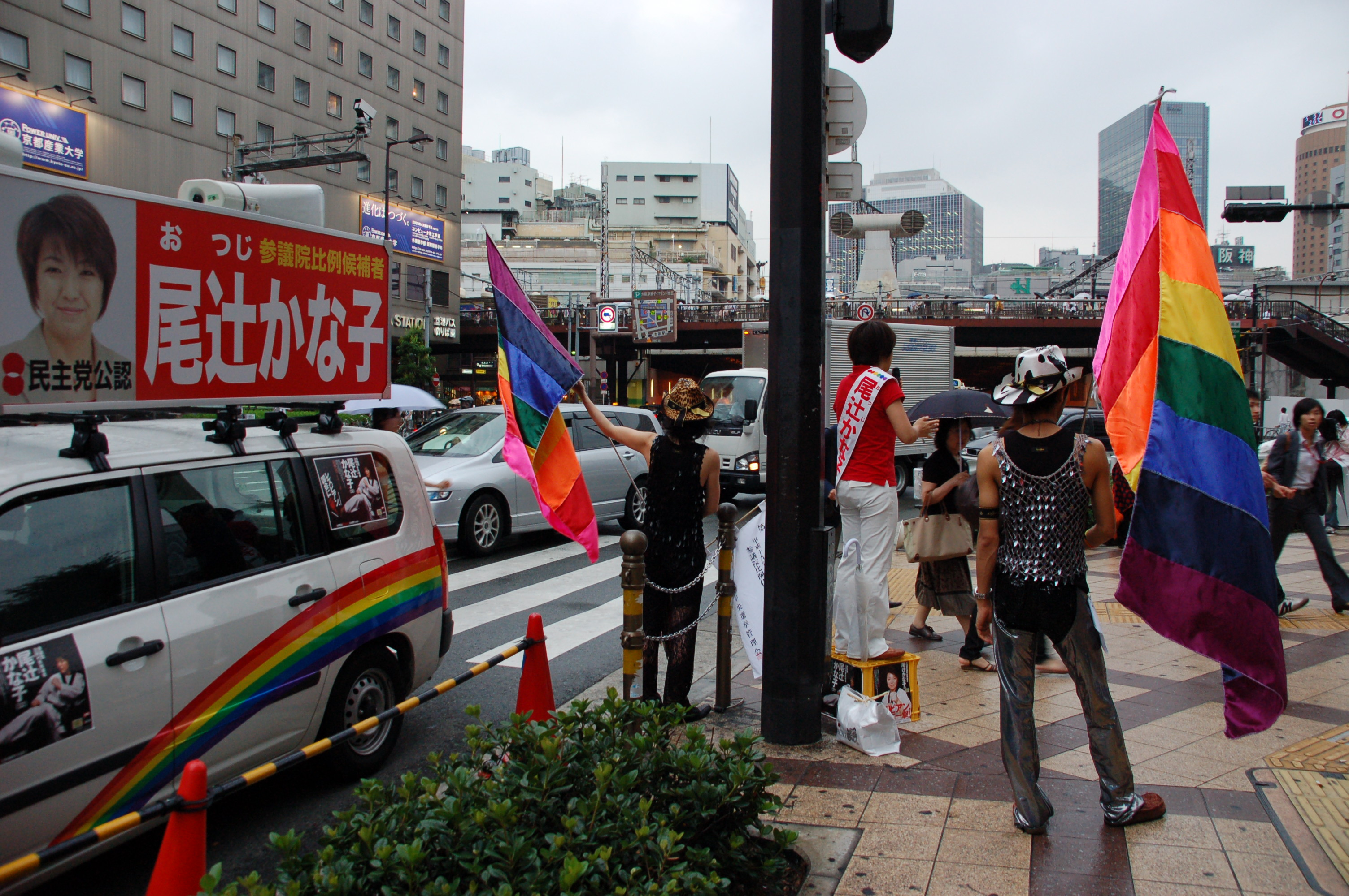 July 20, 2007 at 17:59 JST, Umedaelection*OK, Osaka